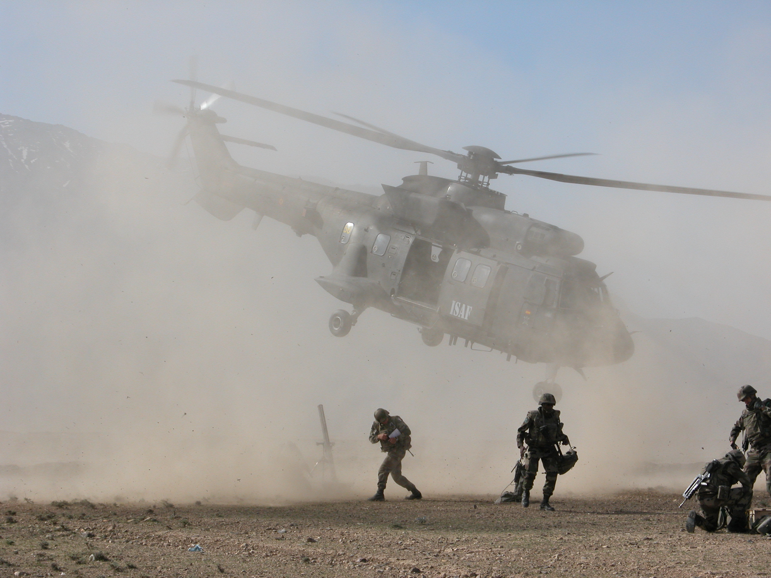 Cougar of the Spanish army with legionnaires of the 2nd Foreign Infantry Regiment (2e REI) of the French Foreign Legion in Afghanistan in 2005.